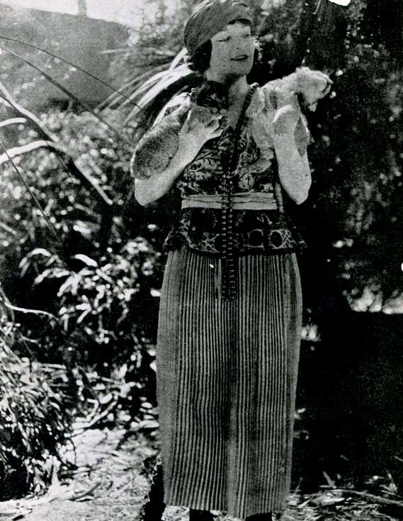 Still with Karla Schramm (1891 – 1980) holding two cubs for the American film serial The Son of Tarzan (1920), on page 1 of the November 1920 Screenland.